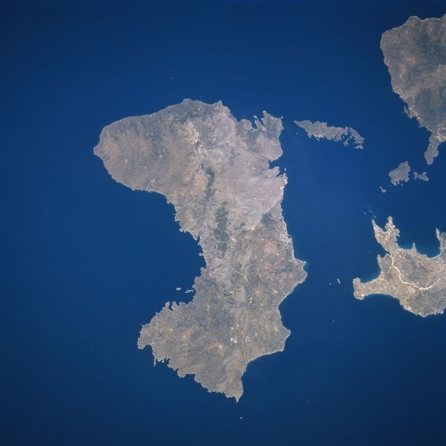 Chios. Chios island seen by the Space, Chíos.